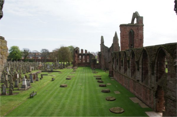 The nave of Arbroath Abbey, Scotland